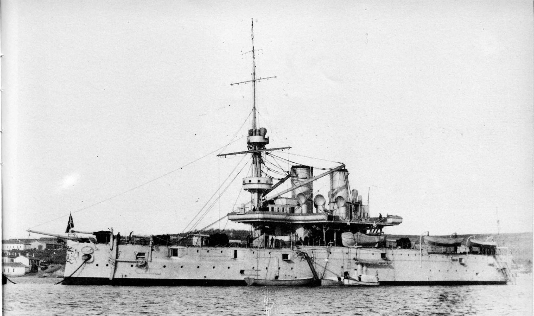 Imperial Russian Battleship Georgiy Pobedonosets, Sevastopol'skaya bukhta.